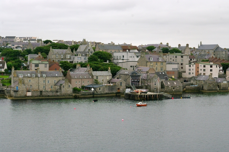 View of Lerwick.